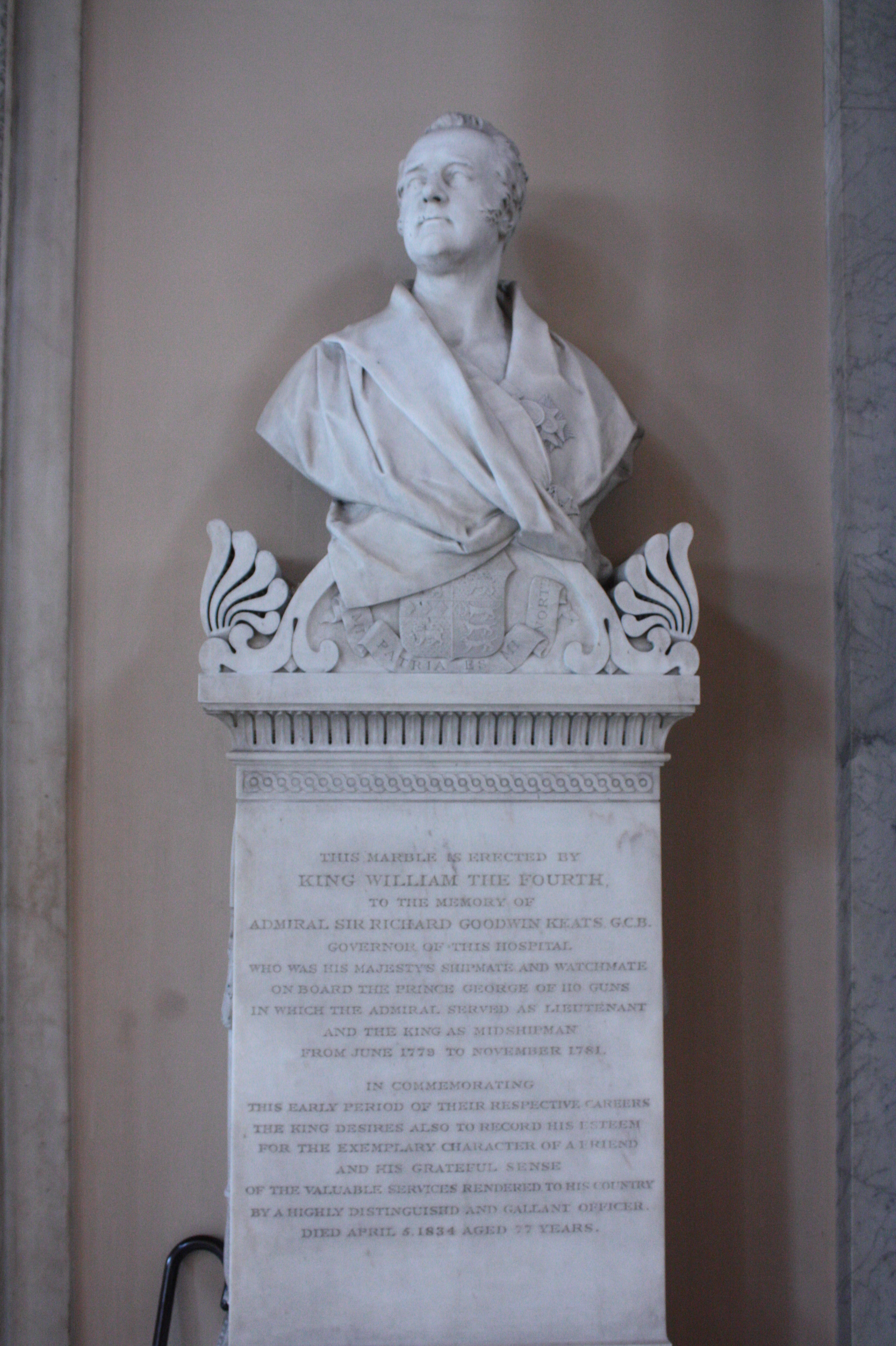 Memorial to Admiral Keats, lobbyo f Greenwich Hospital Chapel